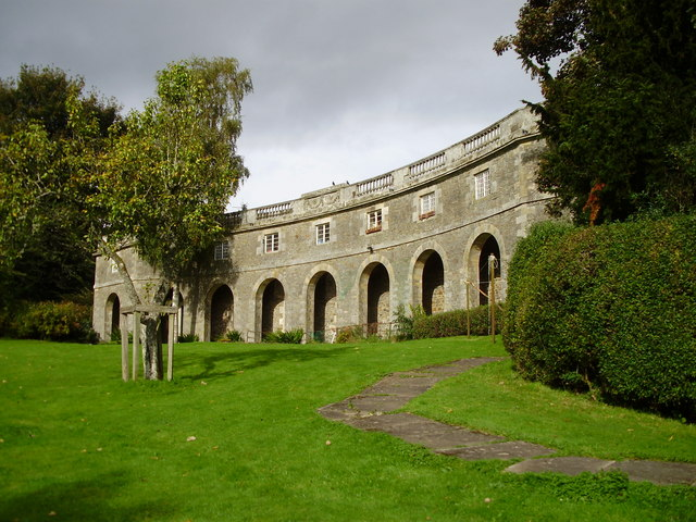 Stables Building The Haining Selkirk These old stables are now converted to living accommodation